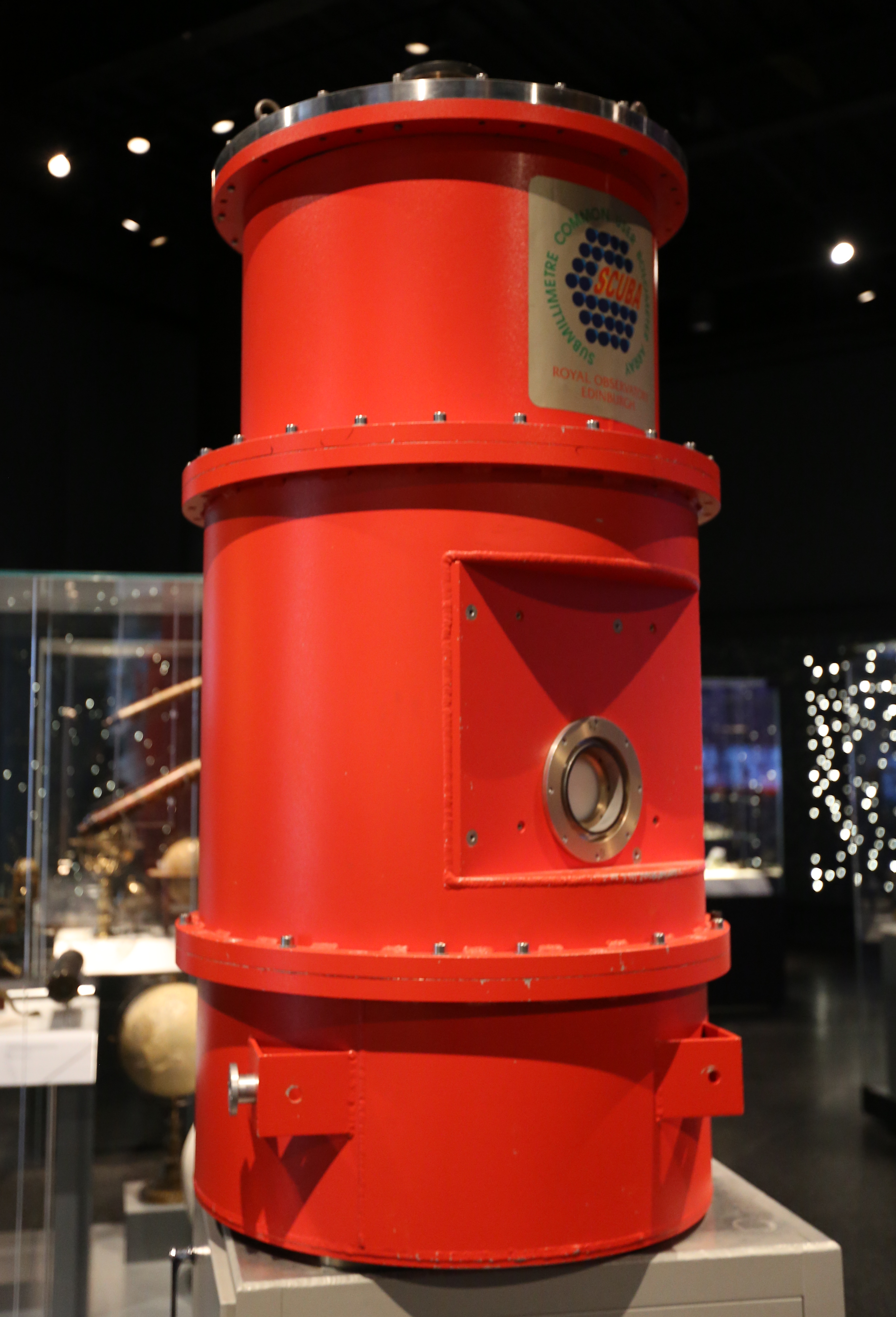 The Submillimetre Common-User Bolometer Array instrument used on the James Clerk Maxwell Telescope between 1990 and 2005. Now on display at the national museum of scotland.